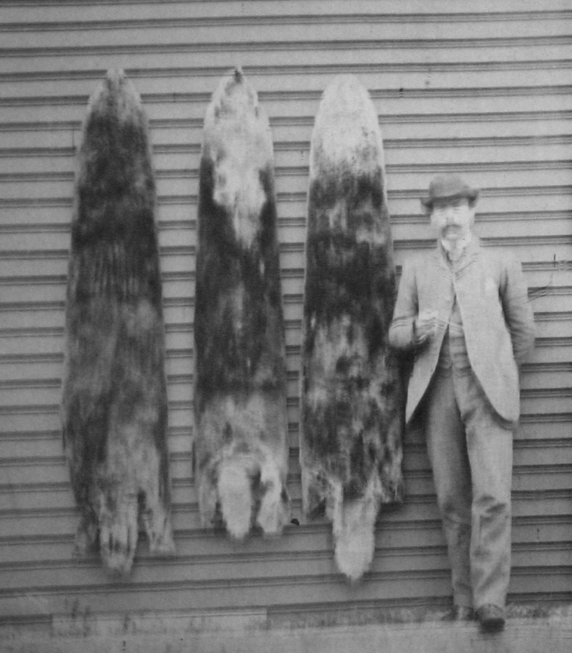 Skins of sea otters. Unalaska, Alaska. Gulf of Maine Cod Project, NOAA National Marine Sanctuaries; Courtesy of National Archives